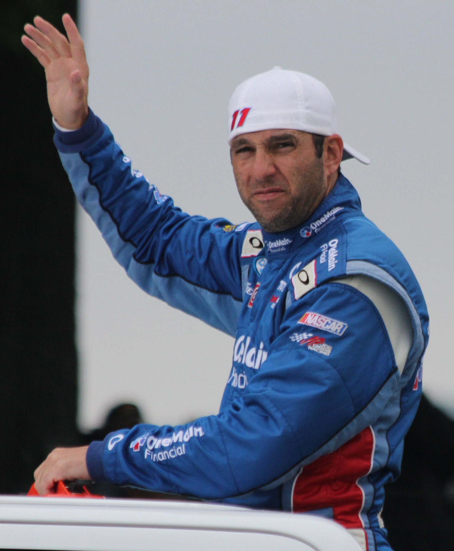 NASCAR Nationwide Series driver Elliott Sadler waves to the crowd at the 2014 Gardner Denver 200 event at Road America.